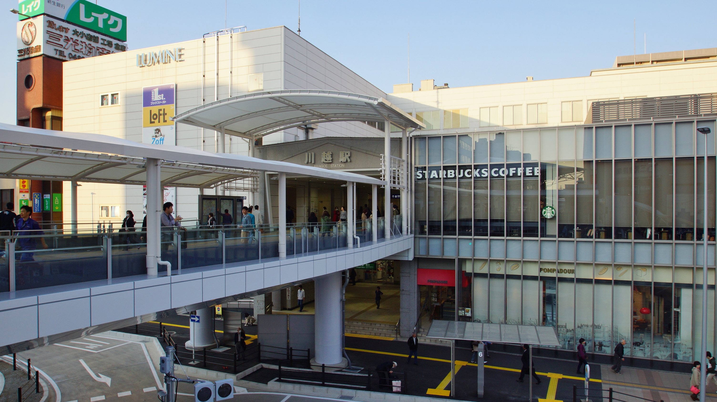 The upper level west exit and elevated pedestrian walkway on the west side of Kawagoe Station in Saitama Prefecture, Japan